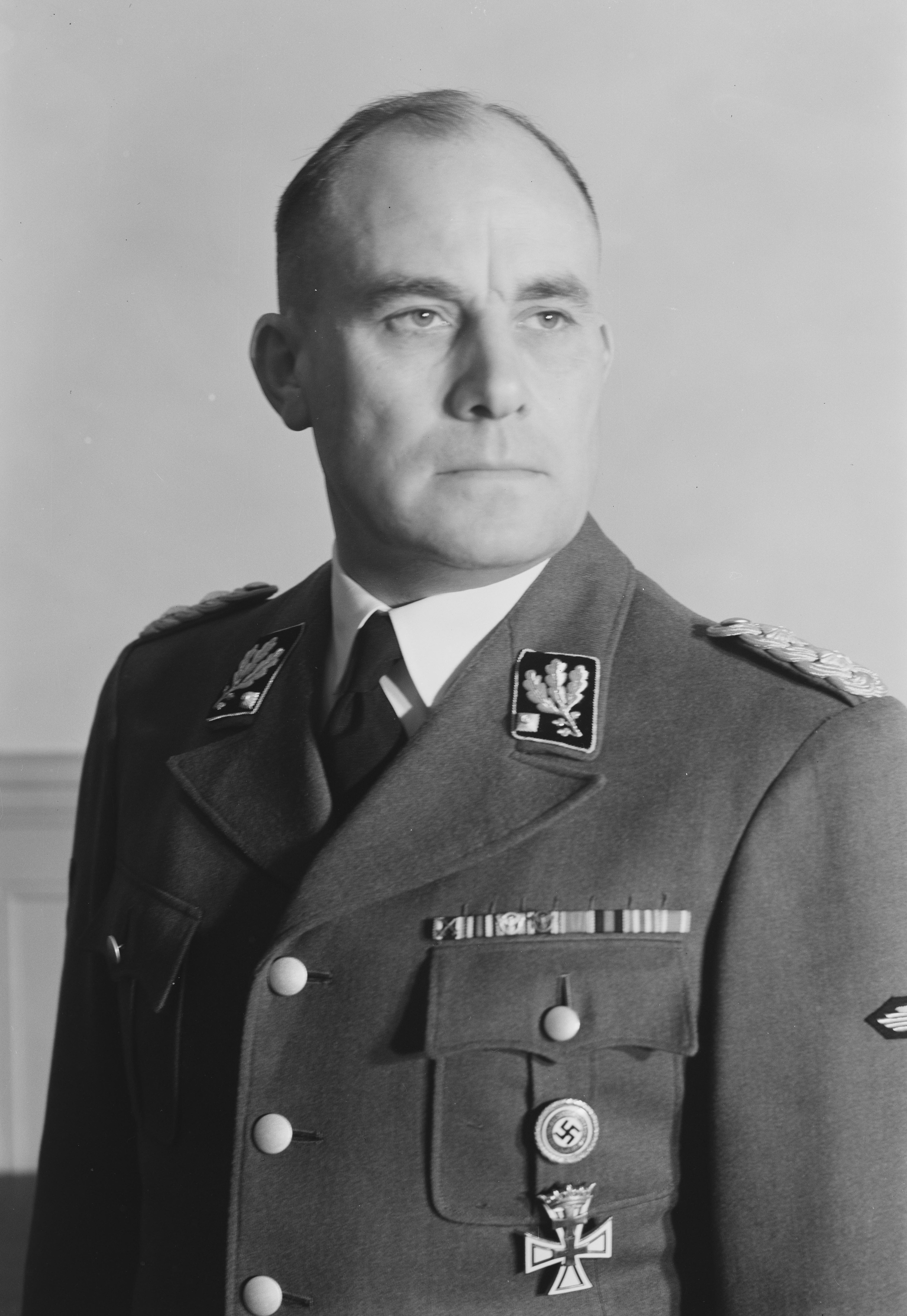 Wilhelm Rediess 1941. Rediess (10 October 1900 – 8 May 1945) was the SS and Police Leader during the German occupation of Norway in the Second World War. He was also the commander of all SS troops stationed in occupied Norway, assuming command on 22 June 1940 until his death in 1945. Rediess' SS uniform has the rank insignia of a SS-Obergruppenführer and is decorated with the Golden Party Badge (Goldenes Parteiabzeichen) as well as the Danzig Cross (Danziger Kreuz).